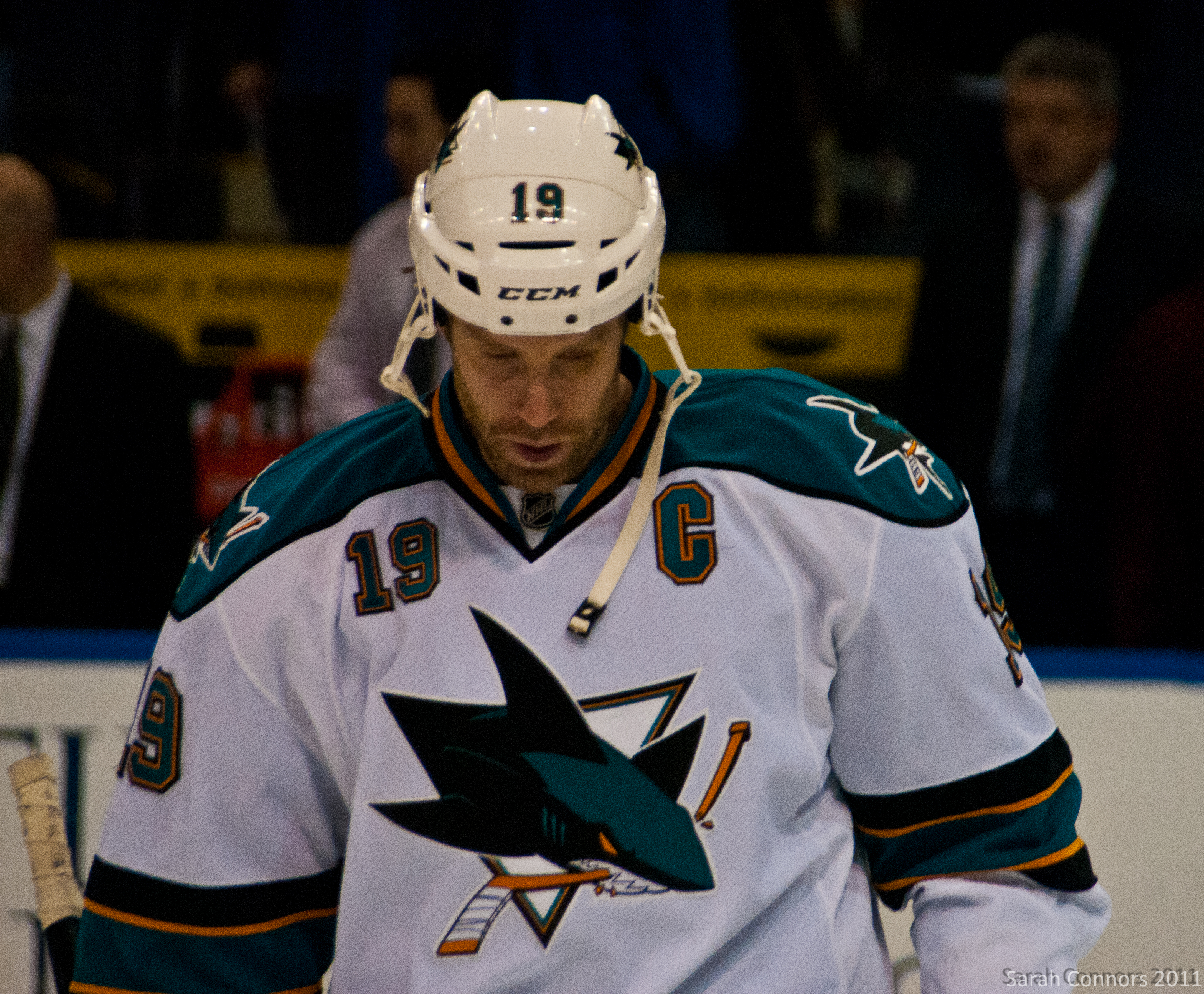 Joe Thornton, Canadian ice hockey centre